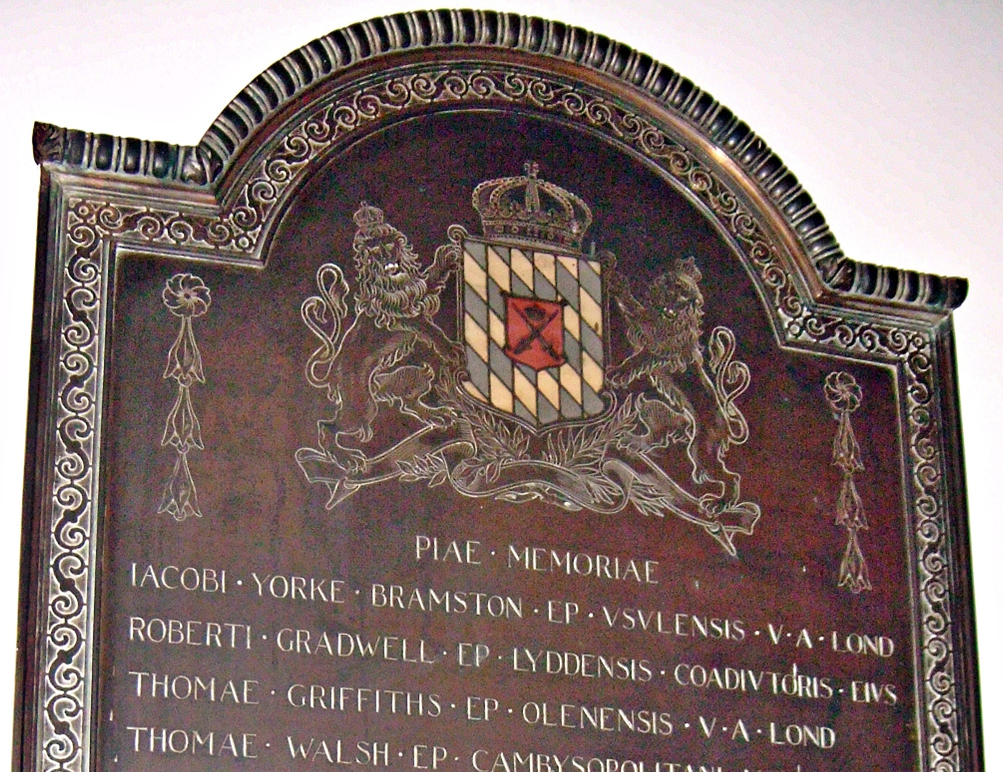 London Warwick Street Church, Gedenktafel an die hier residierenden Bischöfe